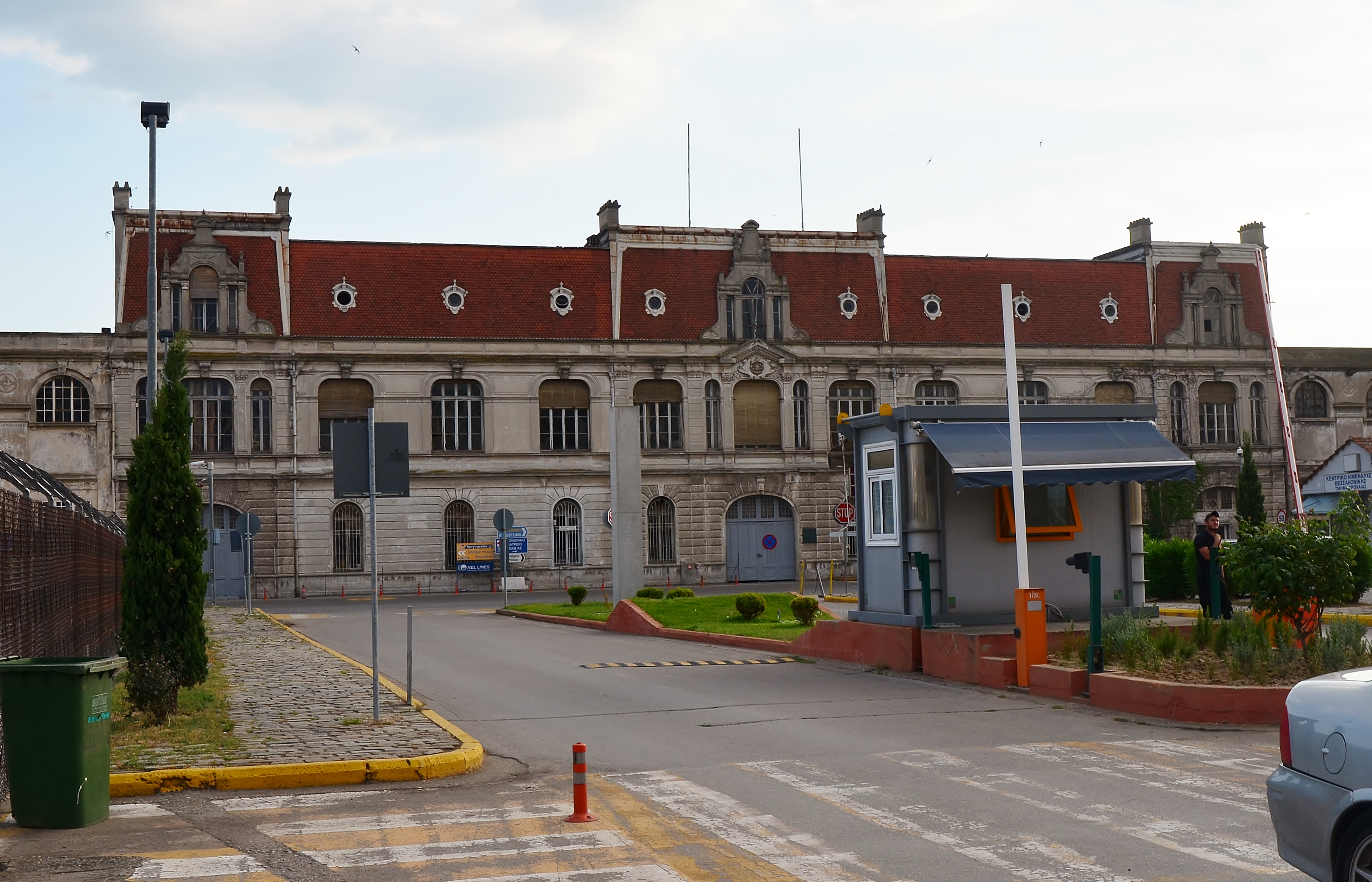 Port Authoriy of Thessaloniki